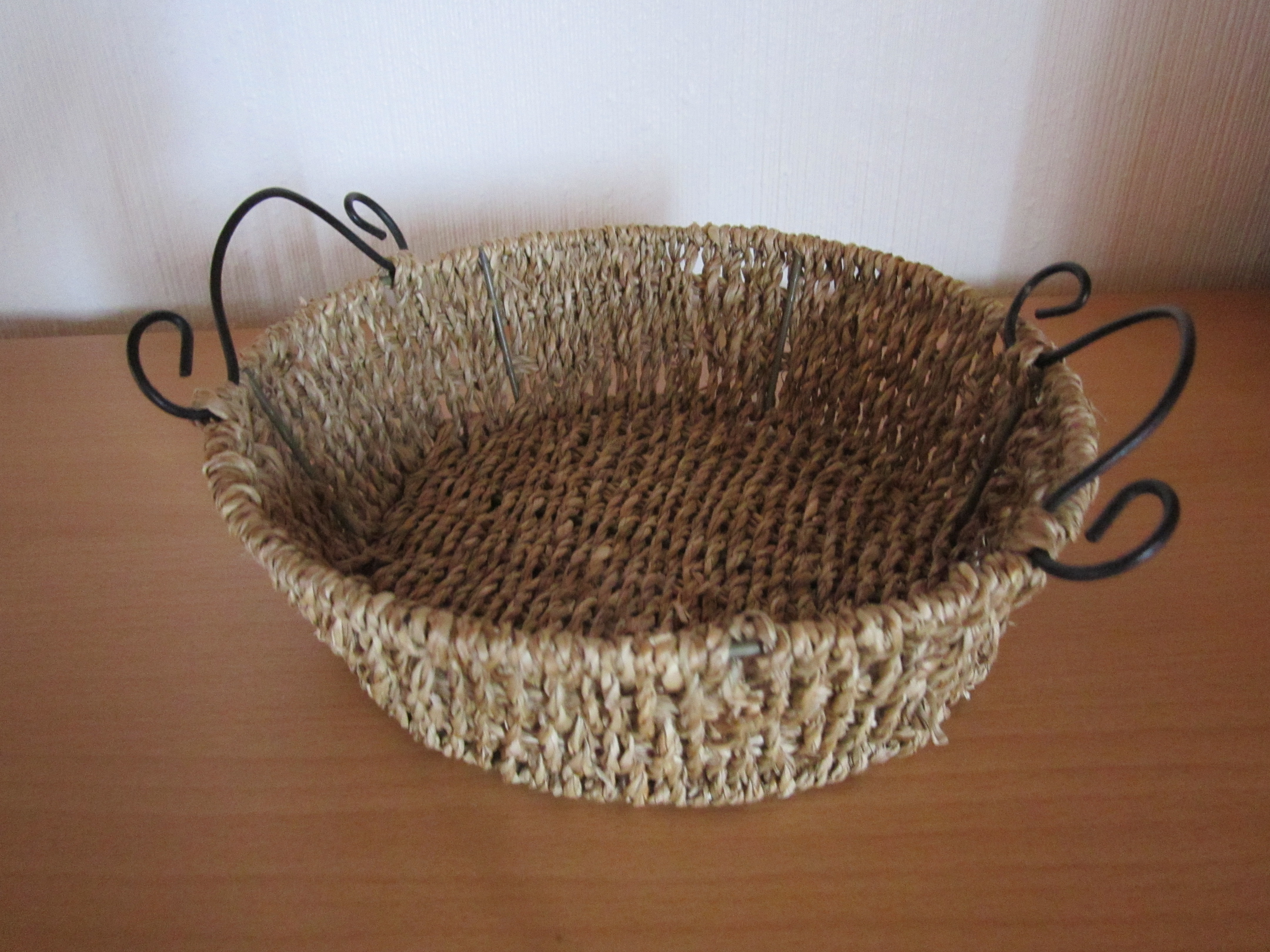 Kollektenkorb